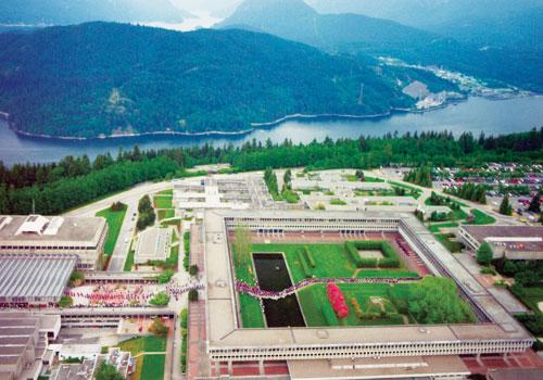 Aerial view of Simon Fraser University at Burnaby, British Columbia. Academic Quadrangle in foreground, looking north.